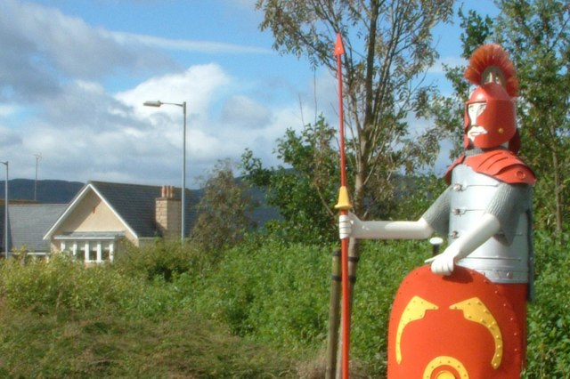 Roman soldier guards Dullatur Dullatur is a village within the vicinity of Cumbernauld, Scotland. The route of the Antonine Wall passed right over the site of Dullatur, and a Roman camp was actually sited there as well.